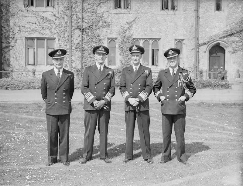 Vice Admiral Sir H D Pridham-whipell, Vice Admiral Commanding Dover. 20 April 1943, Dover. Left to right: Captain H St L Nicholson, DSO, RN, Admiral Sir George D'Oyly Lyon, KCB, Vice Admiral Sir Henry Pridham-Whippell, KCB, CVO, (Vice Admiral Commanding Dover), and Paymaster Commander H Prevett, OBE, RN (Secretary to Vice Admiral Sir henry Pridham Whippell).